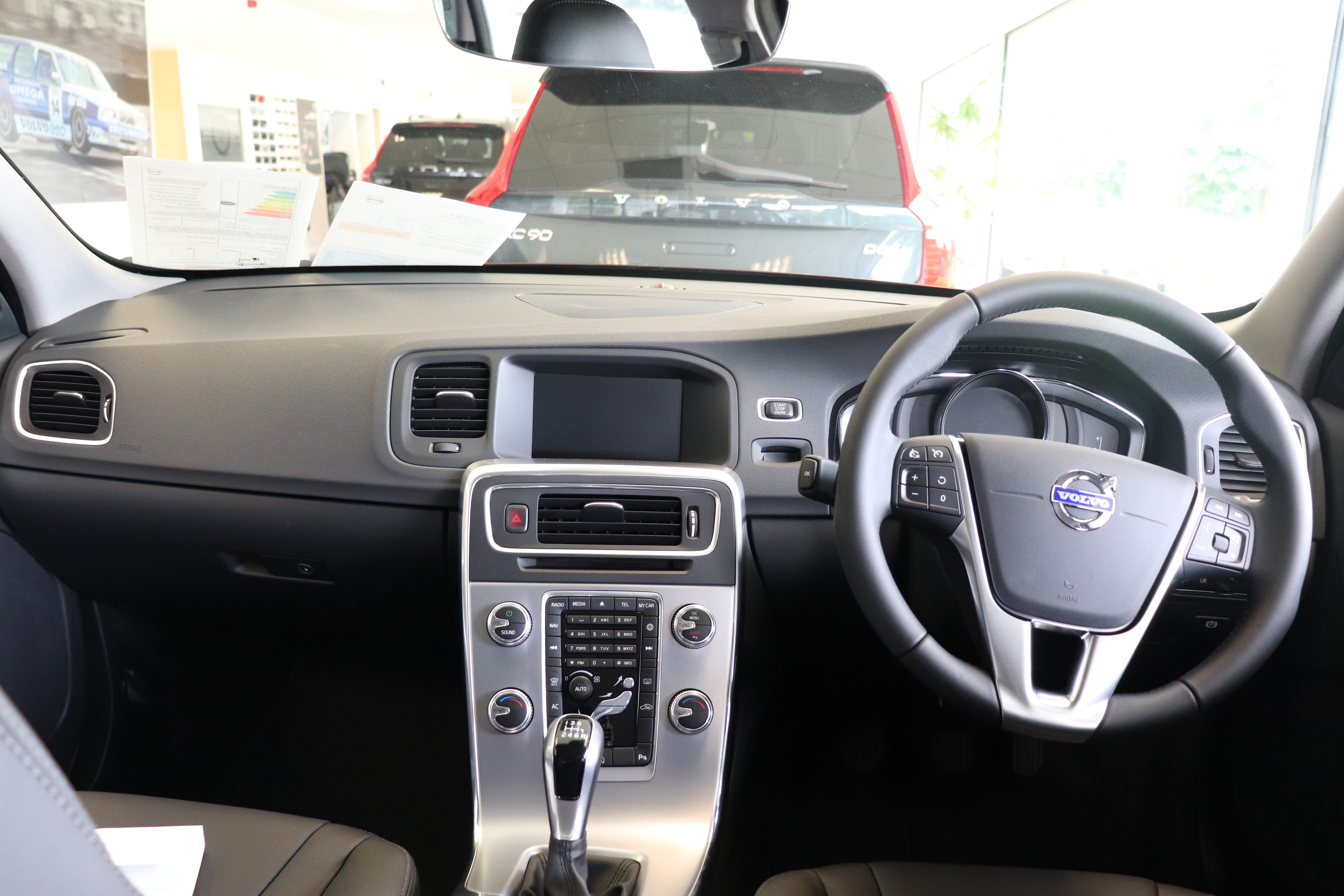 2018 Volvo V60 D3 Cross Country Lux Nav 2.0 Interior Taken in Syther Volvo Warwick, Leamington Spa